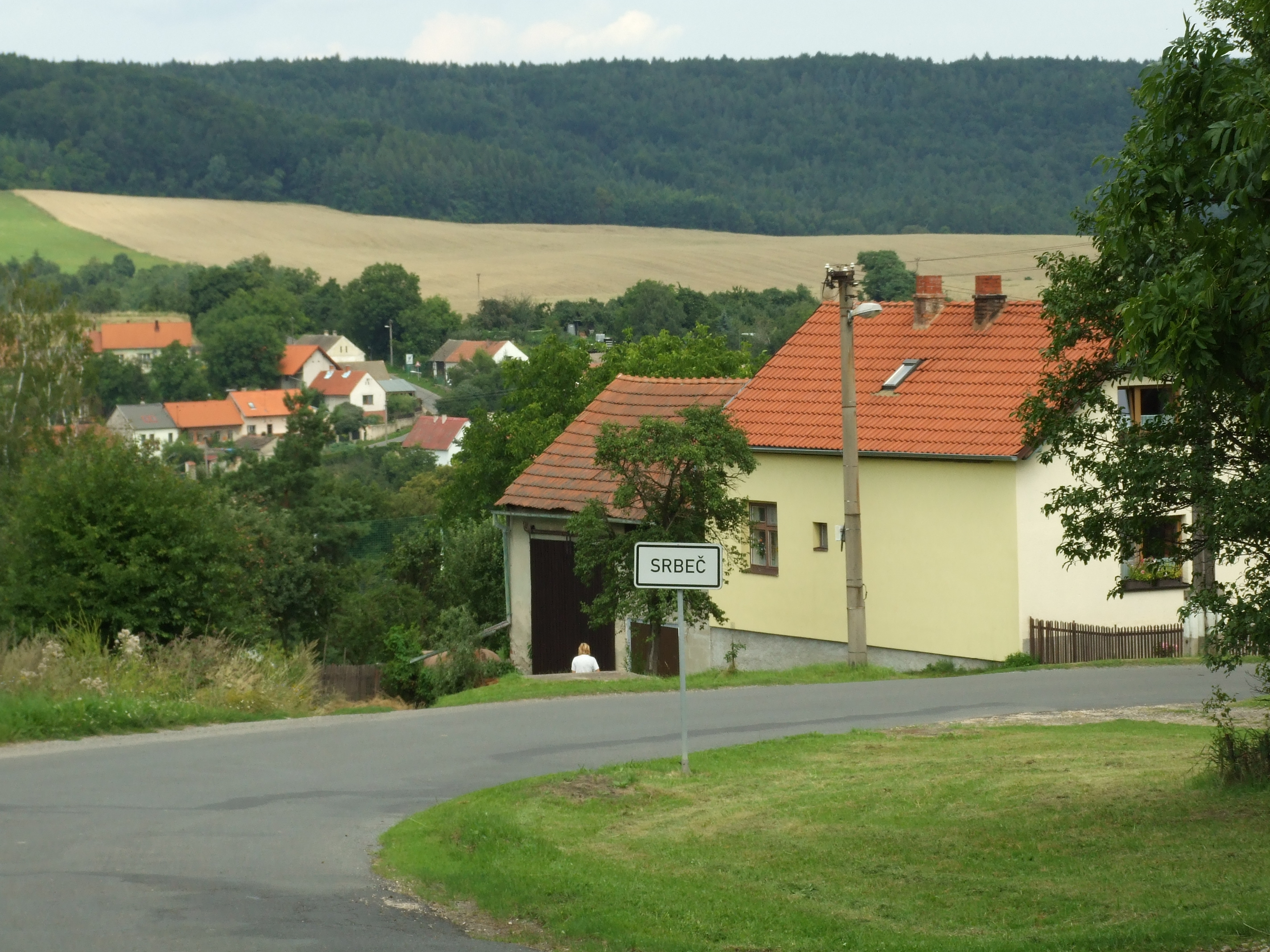 Southern edge of the town of Srbeč, Central Bohemian Region, CZ